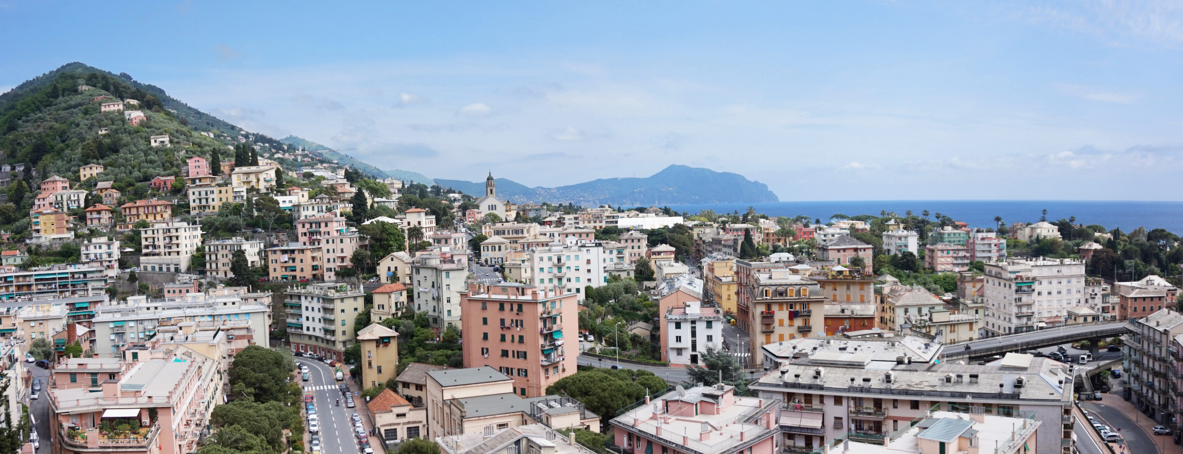 View of Nervi and Monte Giugo, Italy. This photograph was taken with a Sony Alpha a5000.